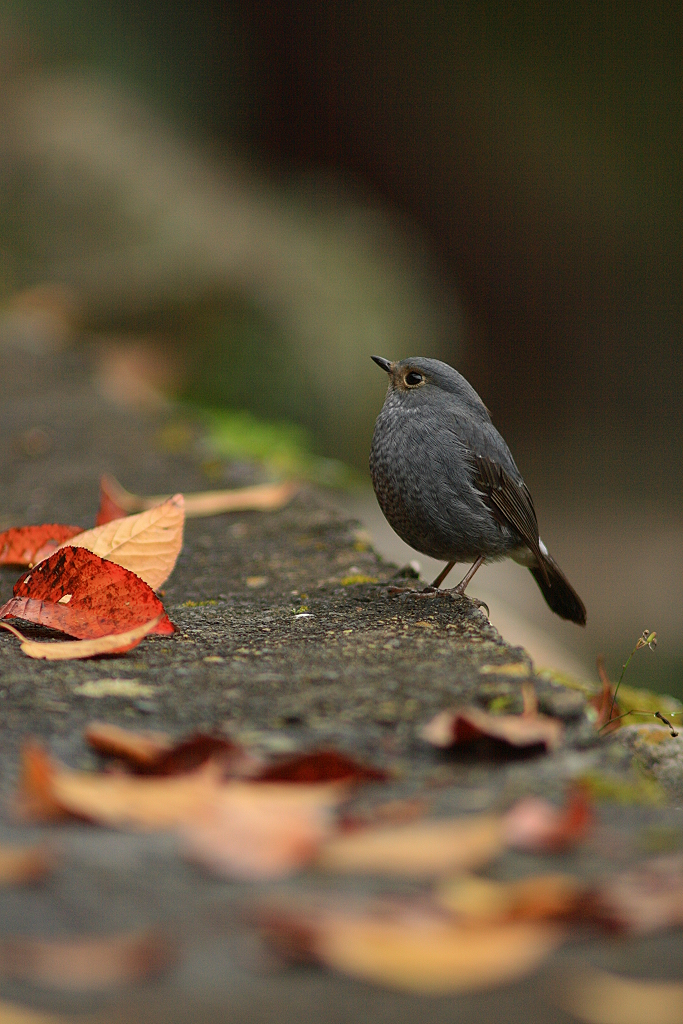 Plumbeous Water Redstart (Rhyacornis fuliginosus)